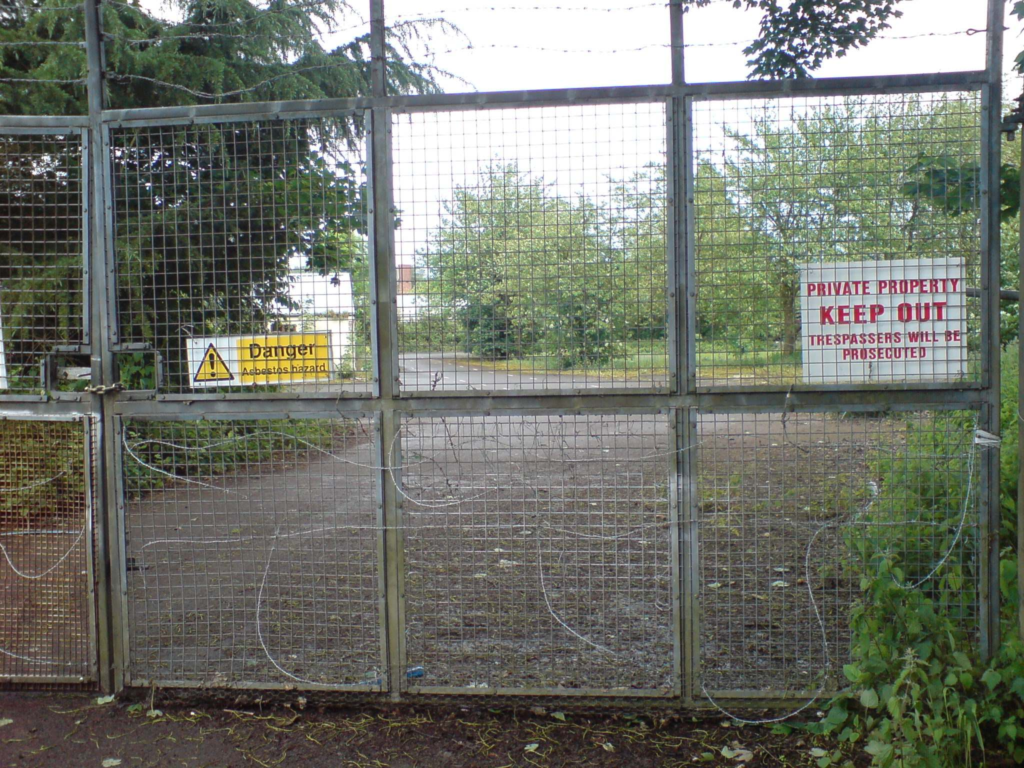 Photo taken through the gate of RAF Nocton hall on 26 May 2007 by myself.